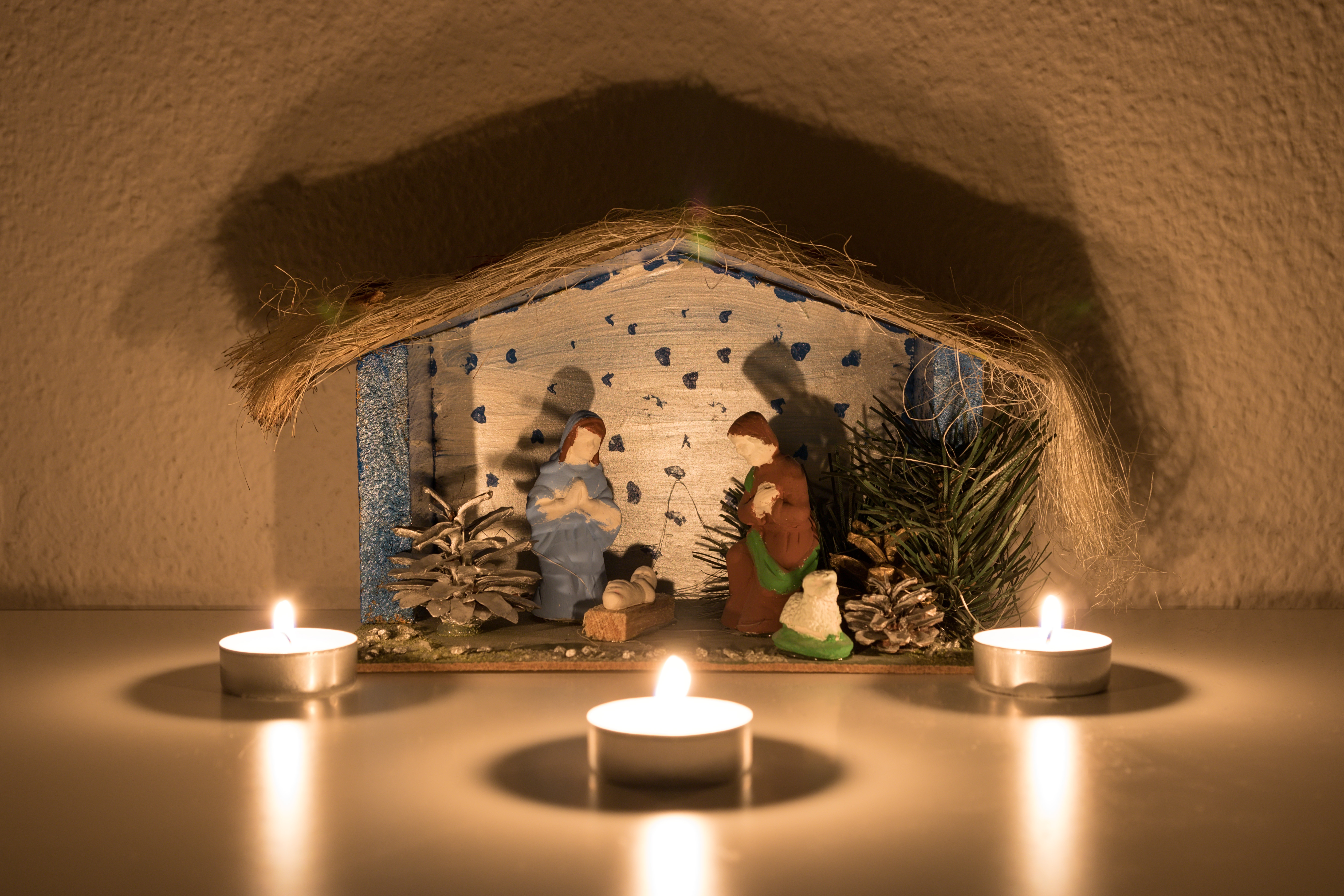 Polish nativity scene